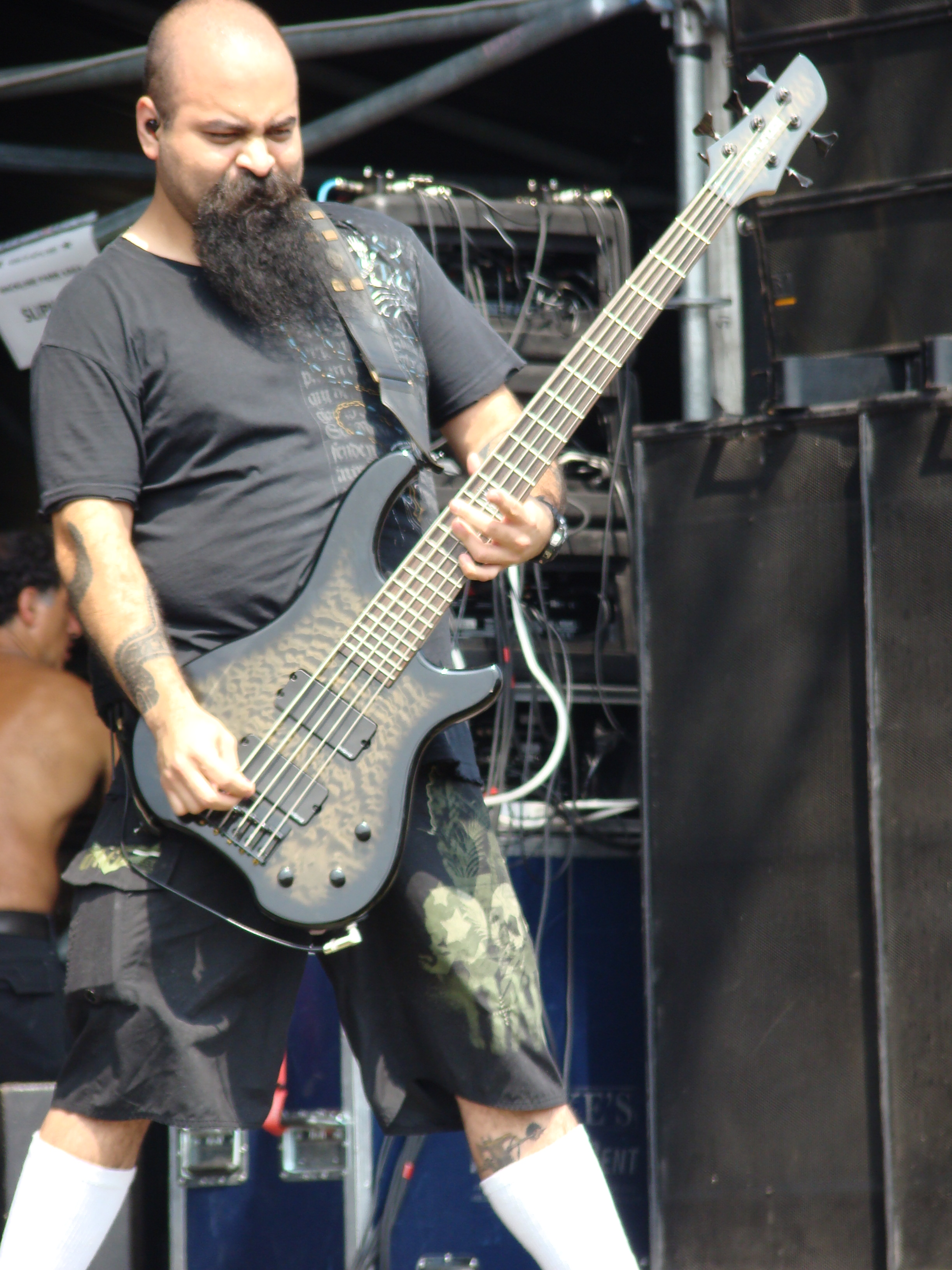 Static-X live @ Gods of Metal